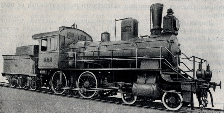 Russian steam locomotive D-zh series